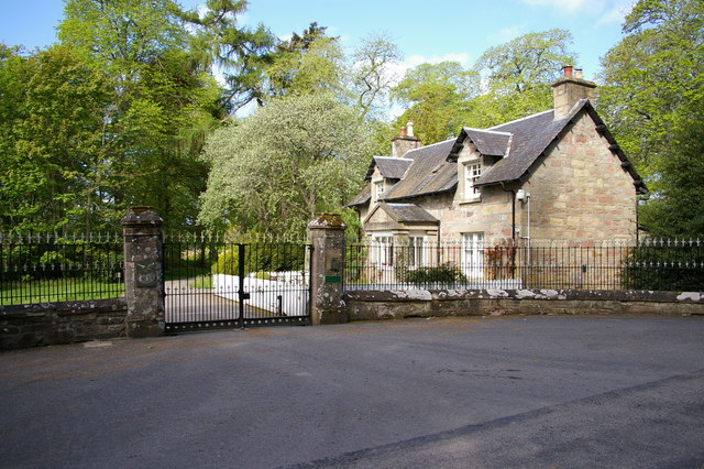 Skibo Castle Gatehouse The gatehouse and entrance to Skibo Castle